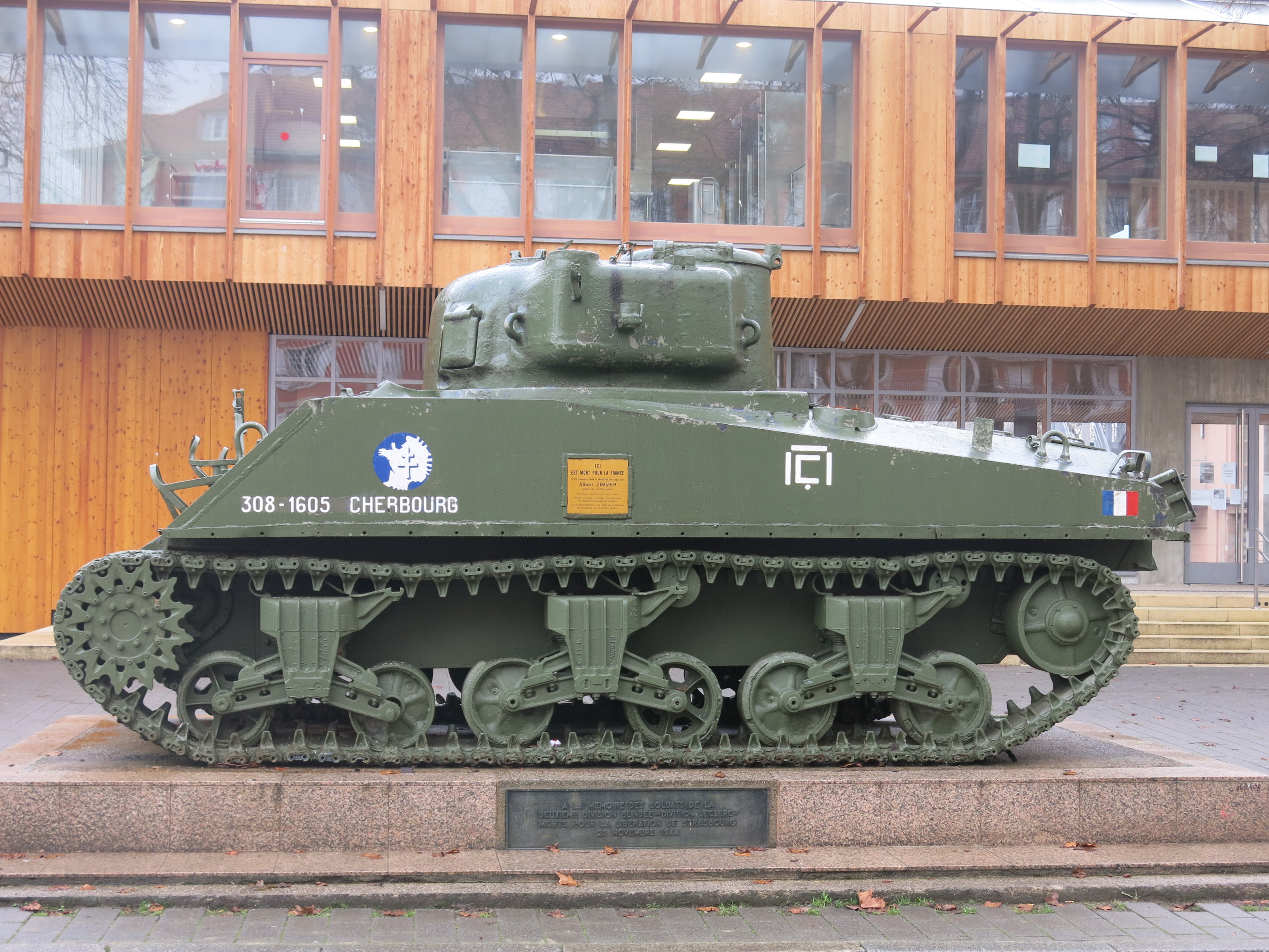 Sherman tank Cherbourg in the district of the port du Rhin in Strasbourg (Bas-Rhin, France).